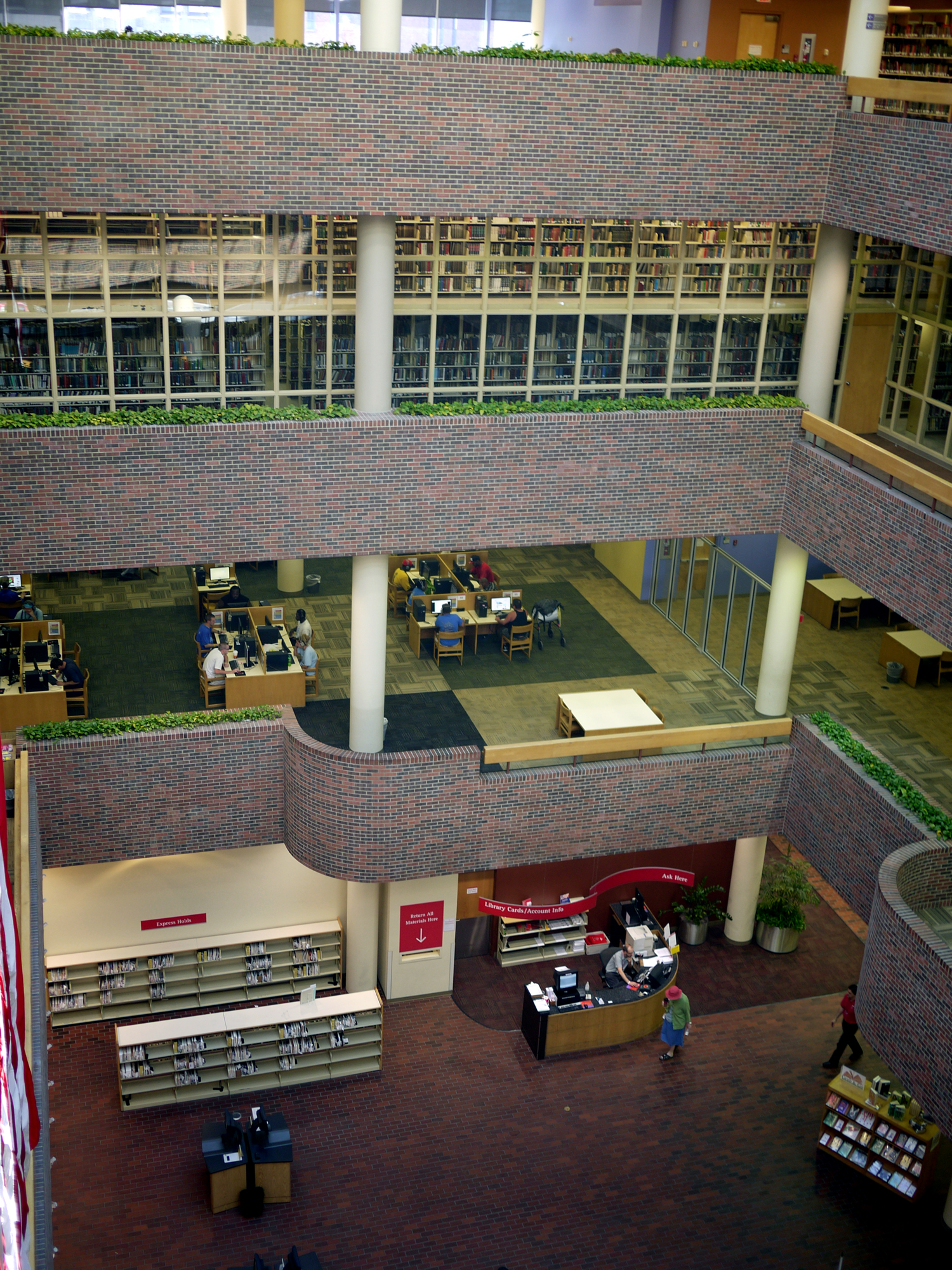 Main Library, Public Library of Cincinnati and Hamilton County, in downtown Cincinnati, Ohio, United States.